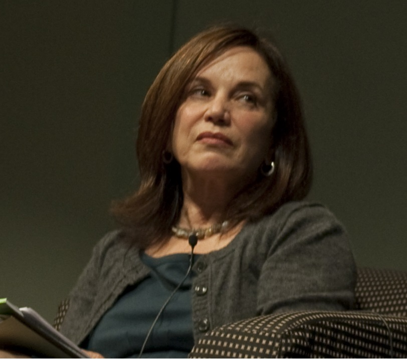 National Public Radio's Morning Edition co-host Renee Montagne during the Bernard Brodie Distinguished Lecture Series at the University of California at Los Angeles on Nov. 10, 2010.